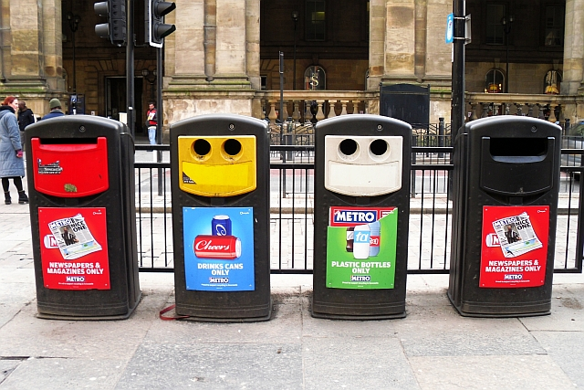 Brightly coloured bins